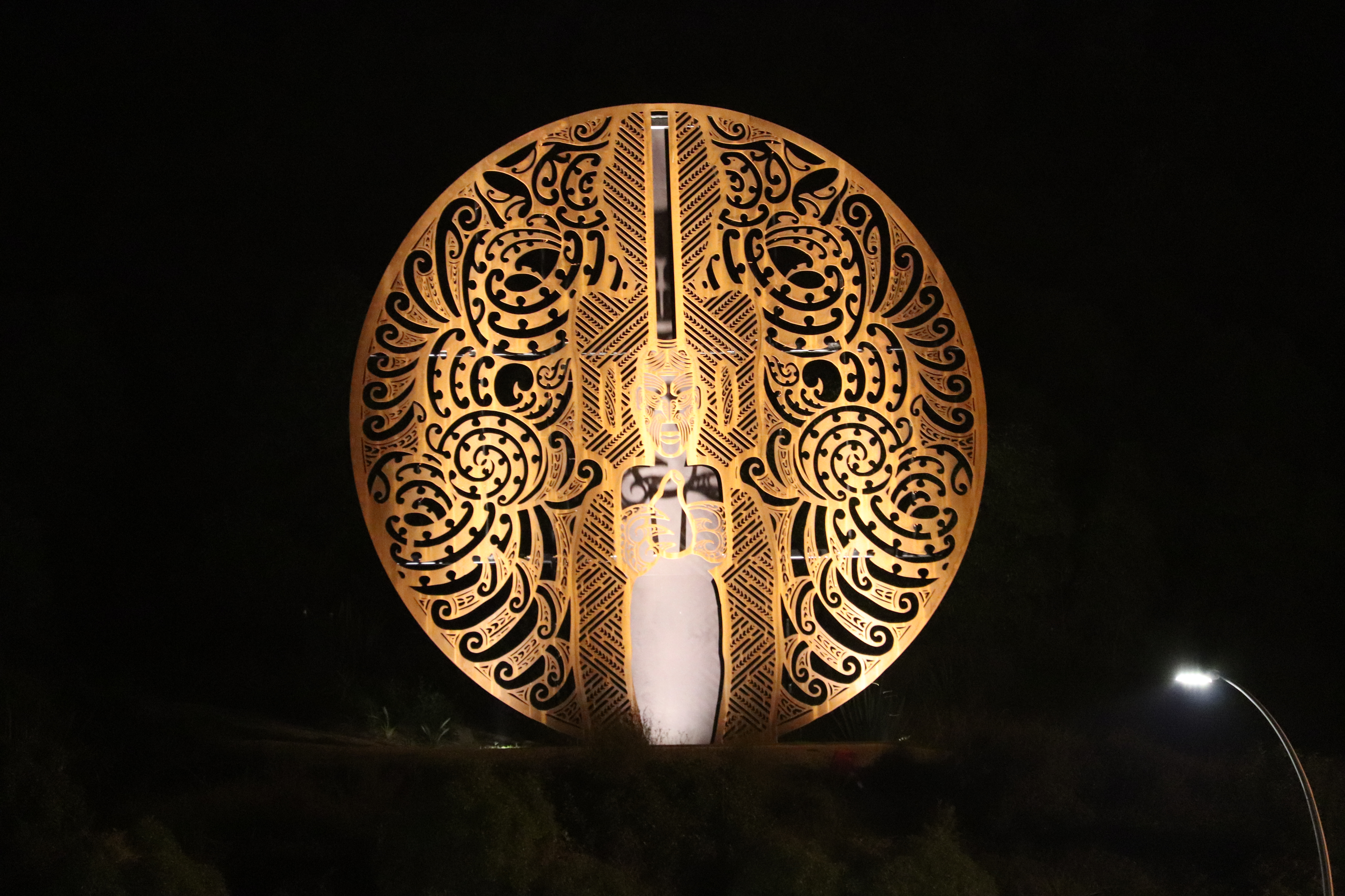 A memorial built by Ngāti Oneone in Gisborne to honour their ancestor Te Maro who was shot dead by Captain Cook when he first made landfall in New Zealand